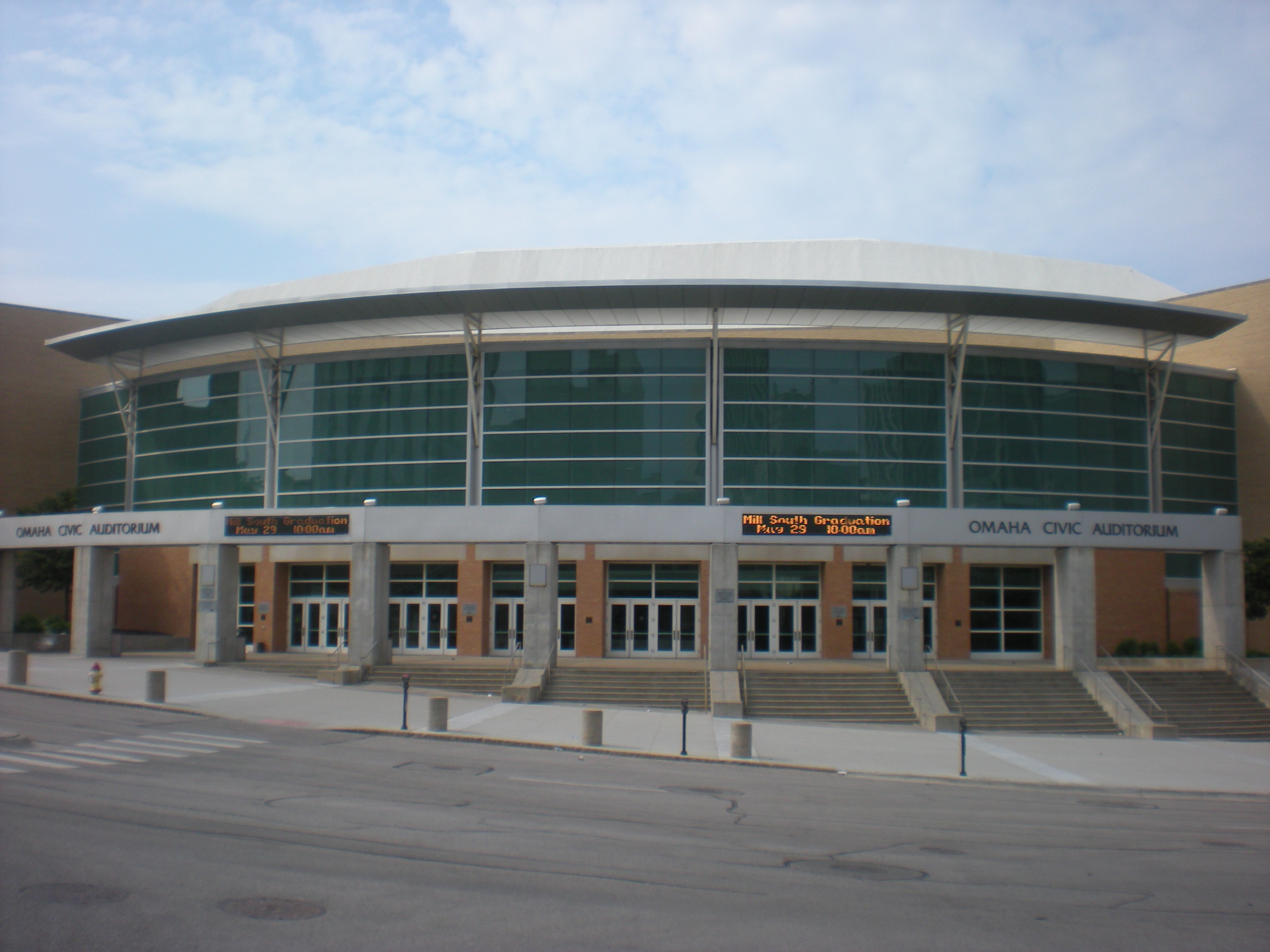 Omaha Civic Auditorium Entrance